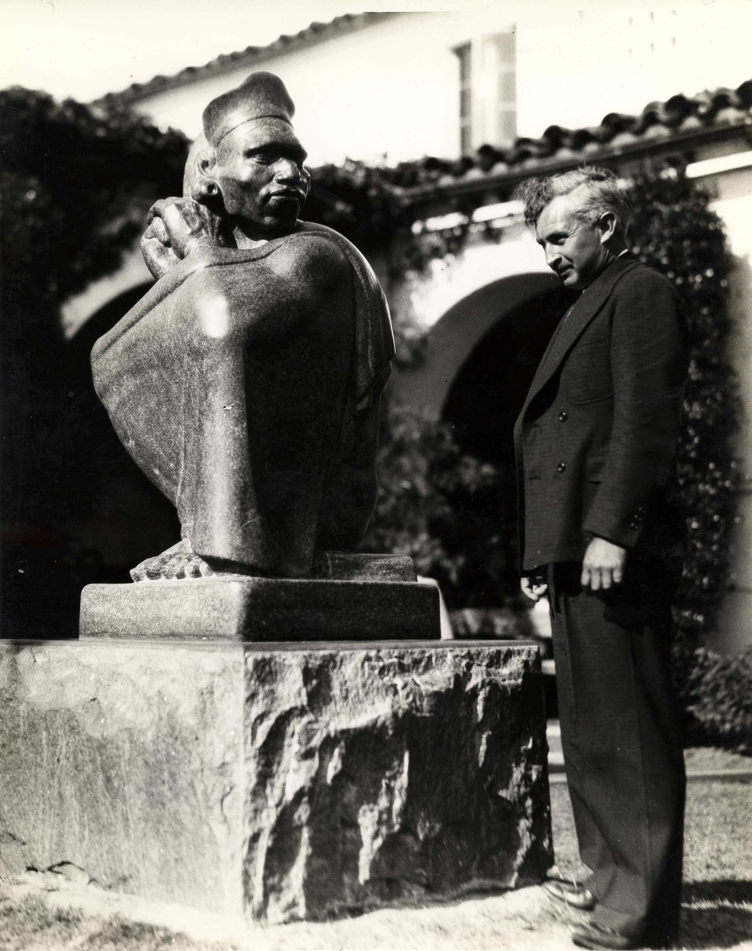 Hord standing outdoors with sculpture. Identification on verso (typewritten): F.A.P. photo by Jack Crawford, 1937. Hord and his sculpture